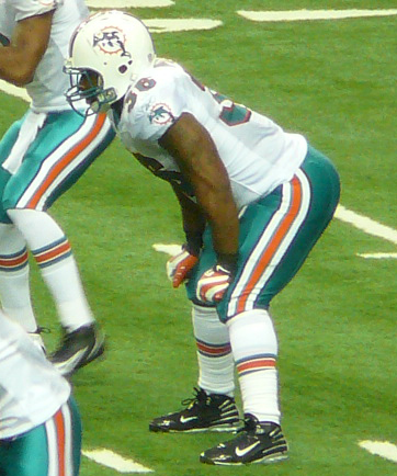 If used somewhere other than Wikipedia, Nelson, by name.